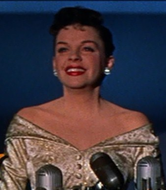 re-cropped screenshot of Judy Garland from the trailer for the film A Star Is Born.